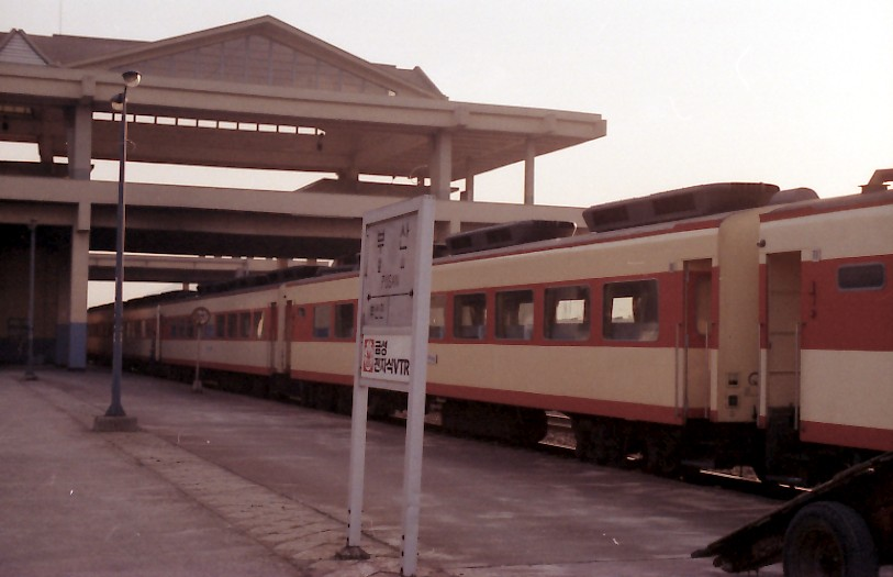 Mugunhwa Express train of Korean National Railroad at Busan station on 1984.